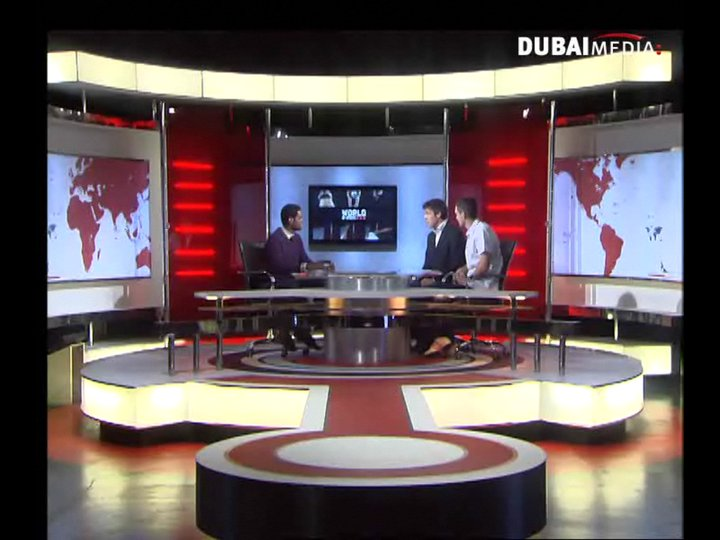 Photo from the set of World of Sports